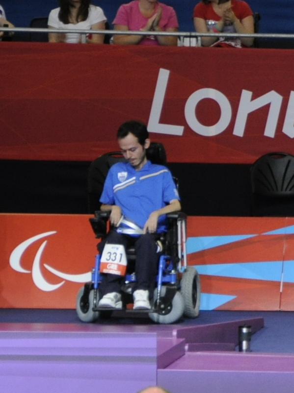 London 2012 Paralympics - greek boccia player Grigorios.Polychronidis